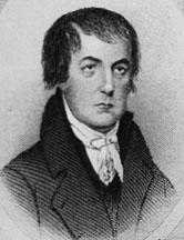 Portrait of Senator Humphrey Marshall of Kentucky